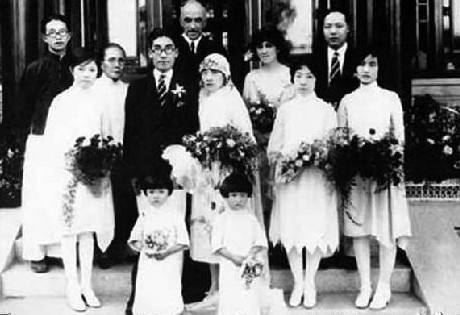 Bing Xin ,was one of the most prolific and esteemed Chinese writers of the 20th Century. Many of her works were written for young readers. She was the chairperson of the China Federation of Literary and Art Circles.